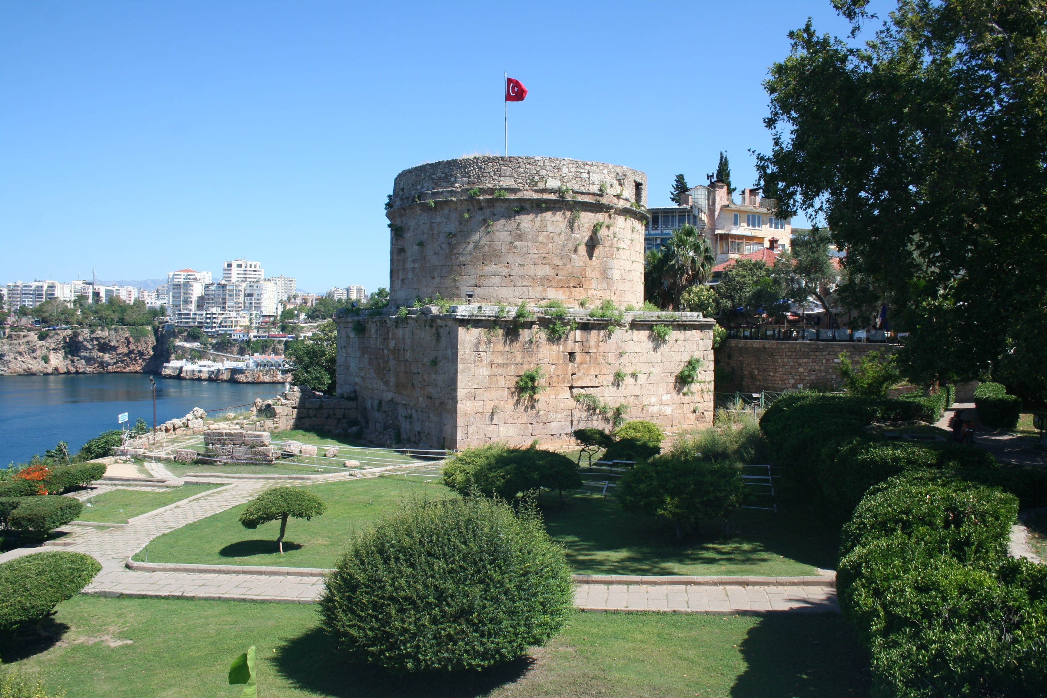 Antalya - Hidirlik Tower